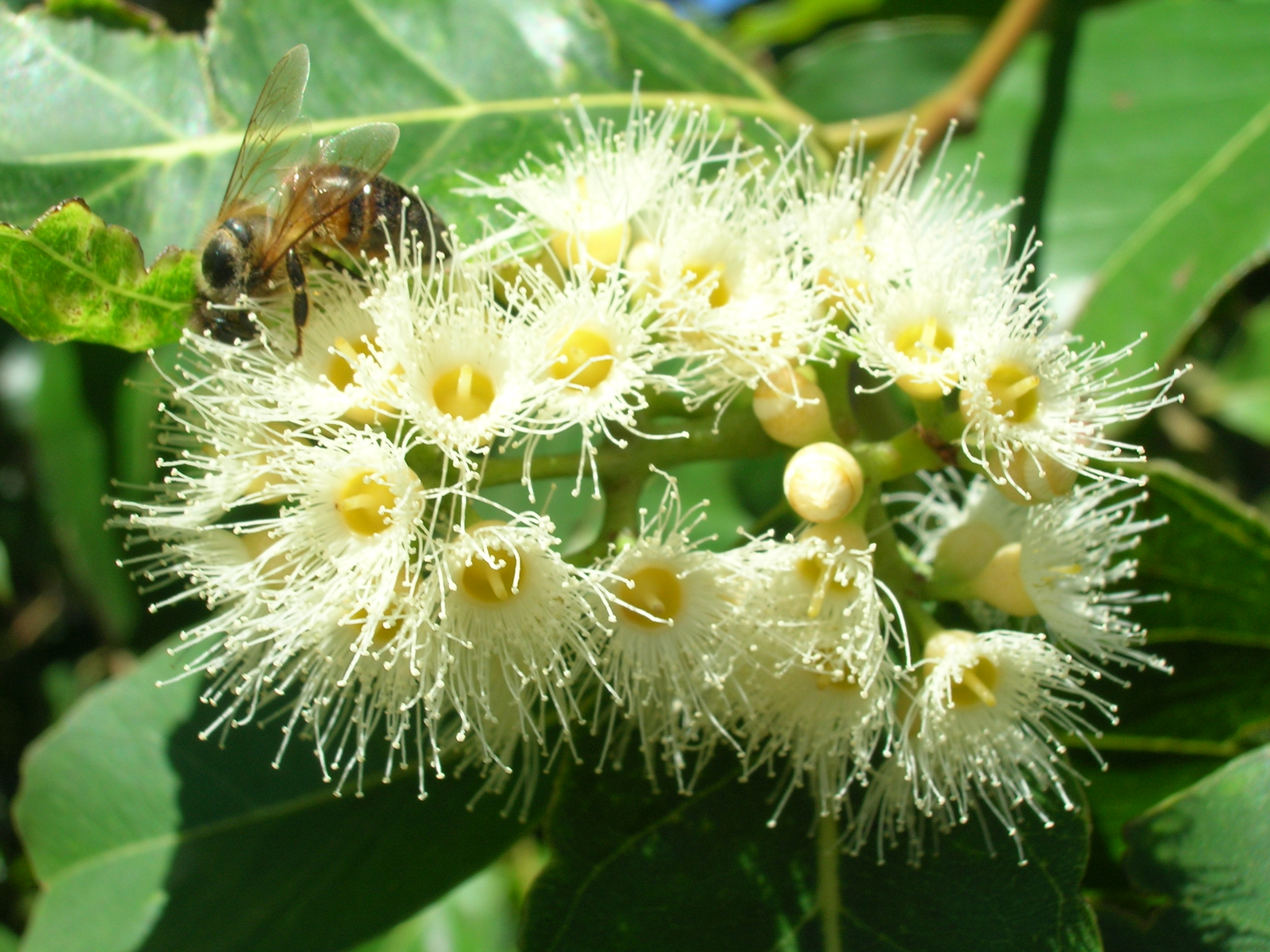 Eucalyptus deglupta (flowers). Location: Maui, Kahului Community Center